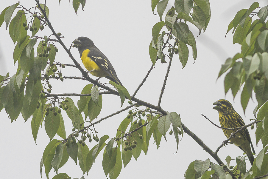 The species Spot-winged Grosbeak both male and female had been photographed during the birding tour of GoingWild in Khangchendzonga Biosphere Reserve in West Sikkim, India on 20.02.2016.